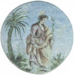 Coat of Arms of Šarašoŭ (1792)